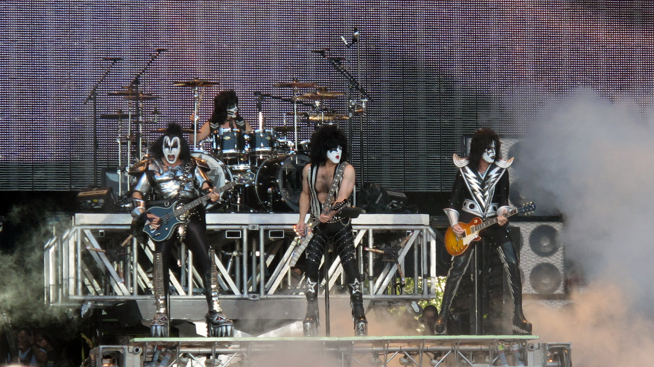 KISS playing at Sauna Open Air 2010, during their Sonic Boom Over Europe Tour. Location Tampere, Finland